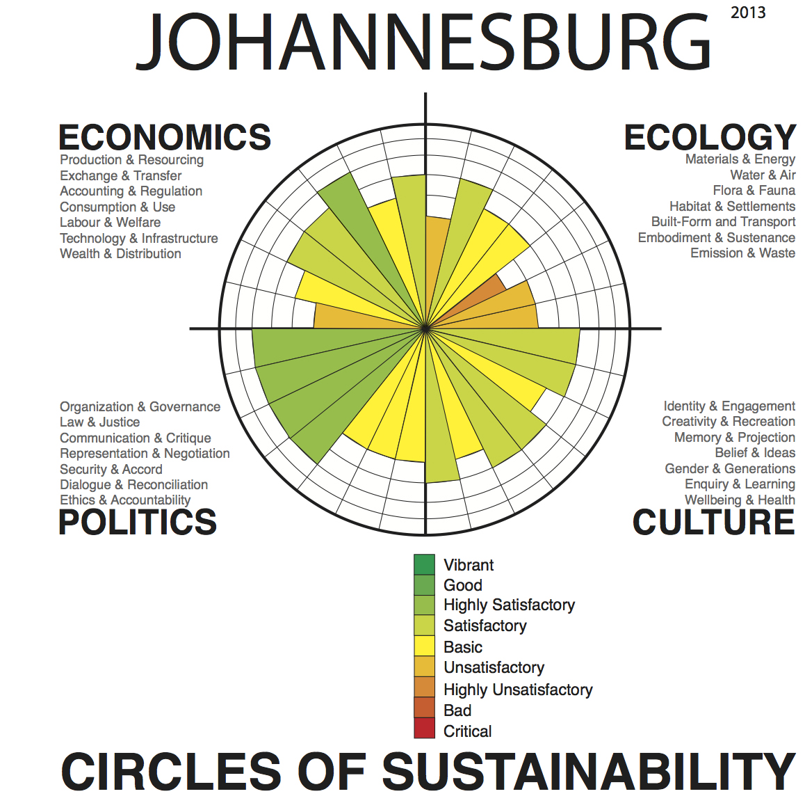 Urban sustainability analysis of the greater urban area of the city using the 'Circles of Sustainability' method of the UN Global Compact Cities Programme